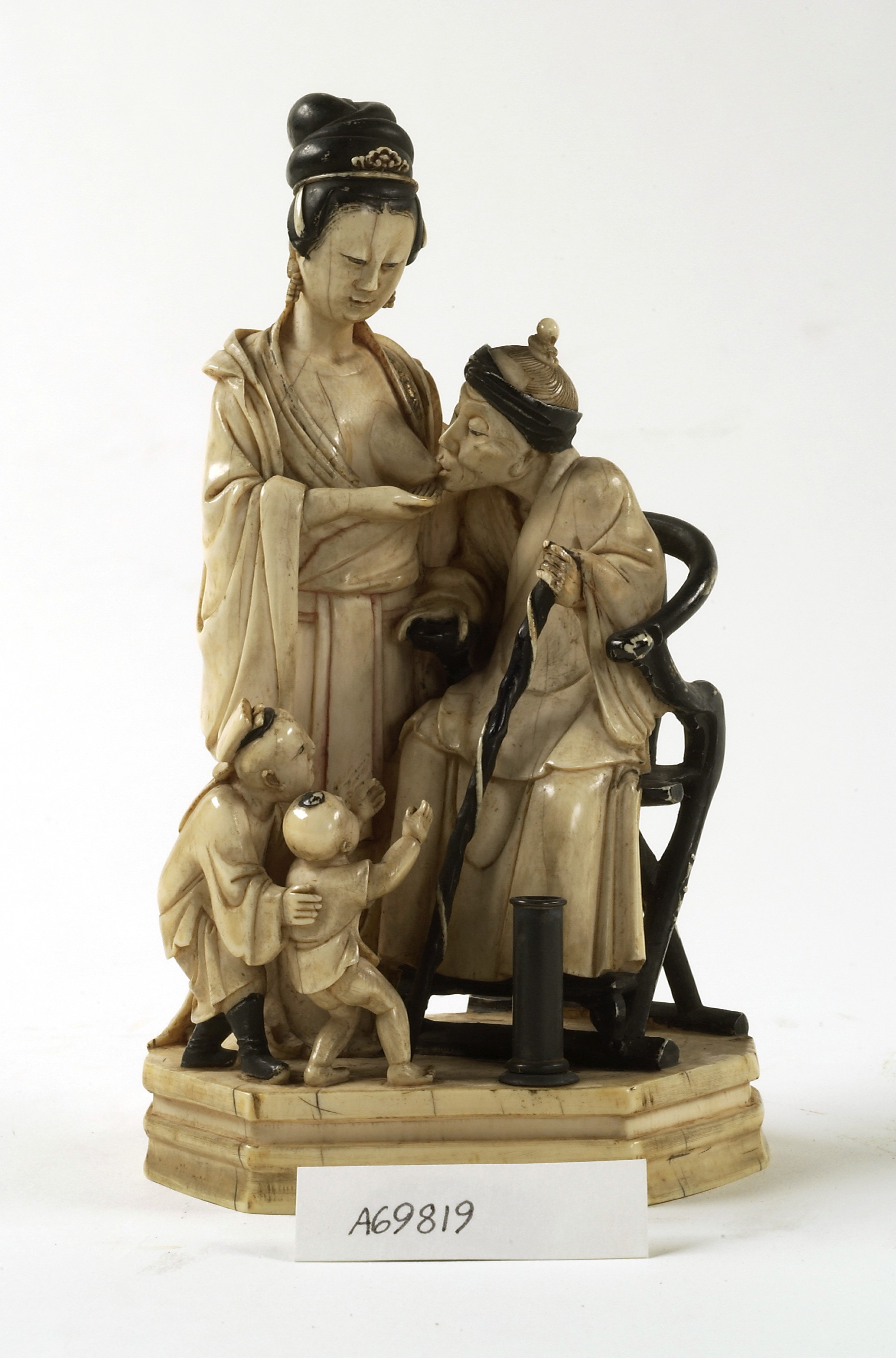 Ivory statuette showing a woman breast-feeding her old mother-in-law, watched by her two children. Wellcome Images Keywords: Breast Feeding